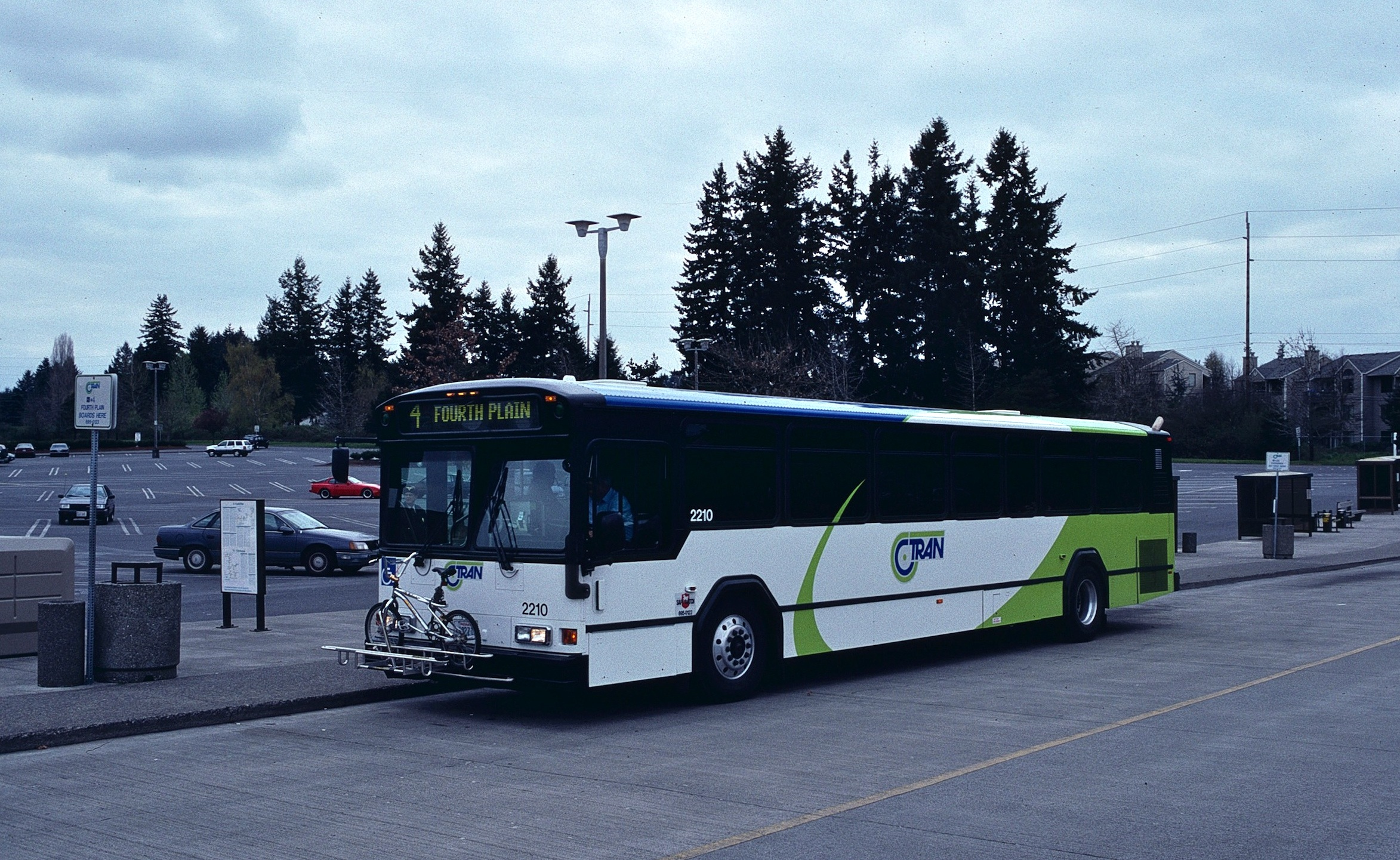 C-Tran bus 2210, a 40-foot Gillig Phantom, at Vancouver Mall, in service on route 4-Fourth Plain. It is carrying a bicycle on the front.